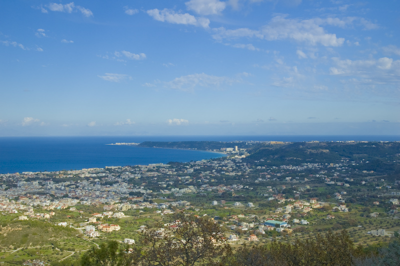 Island of Rhodes: General view of the town of Ialissos and the west coast.